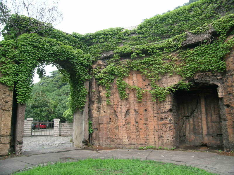 浙江宁波镇海招宝山炮台遗址。The site of emplacement on Zhao Bao Shan in Zhenhai, Ningbo, Zhejiang, China.